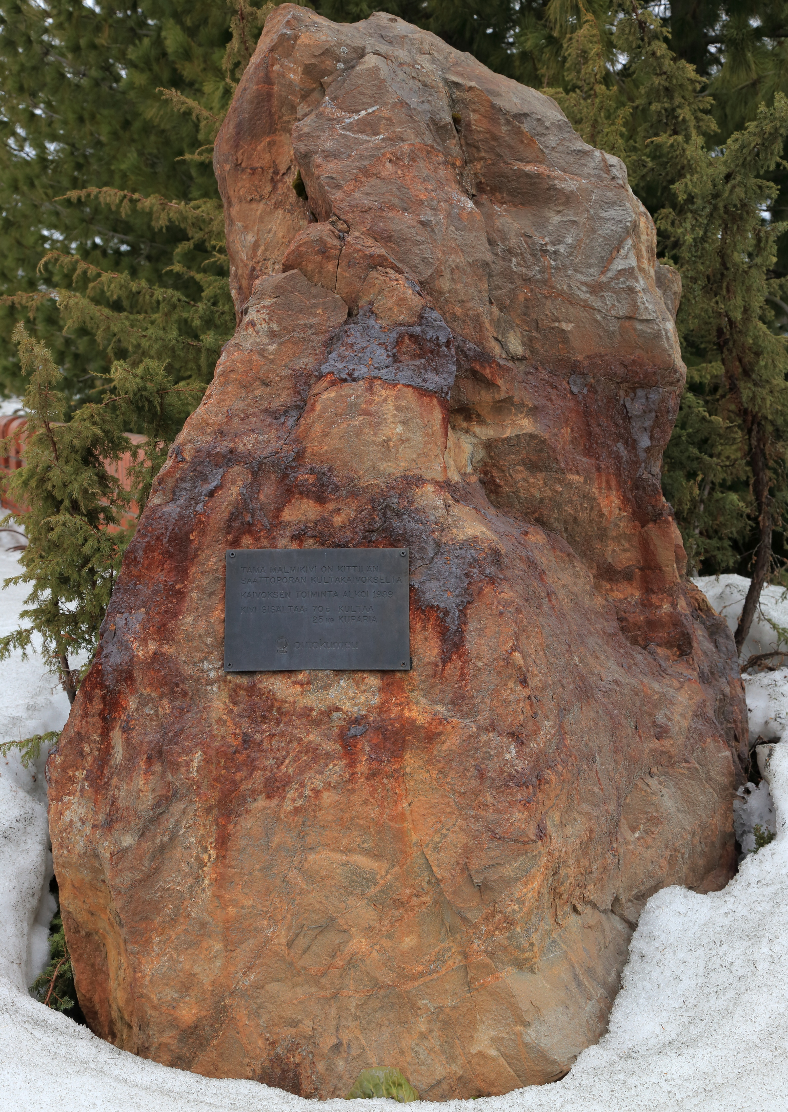 A memorial stone (of ore) of the Saattopora mine in Kittilä, Finland. The plaque states that this piece of ore contains 70 grams of gold and 25 kilogramas of copper.